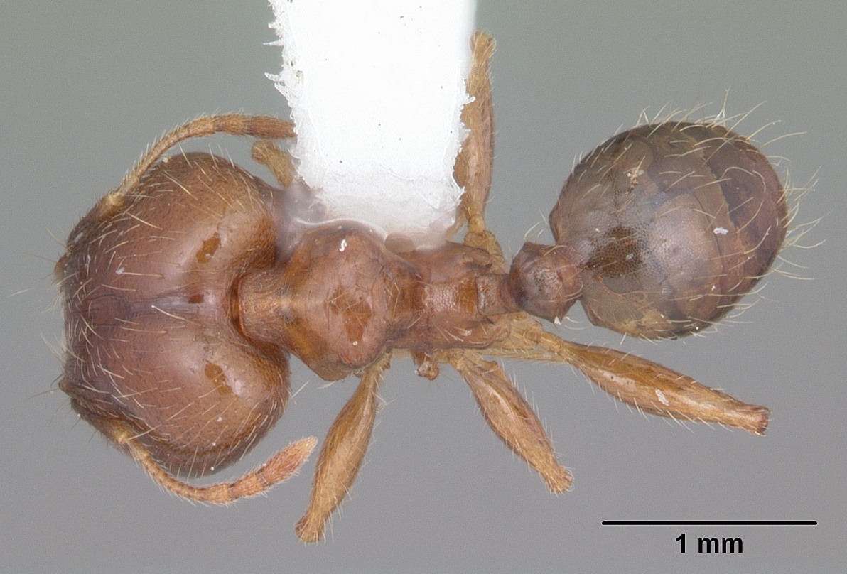 Dorsal view of ant Pheidole megacephala specimen casent0104408.